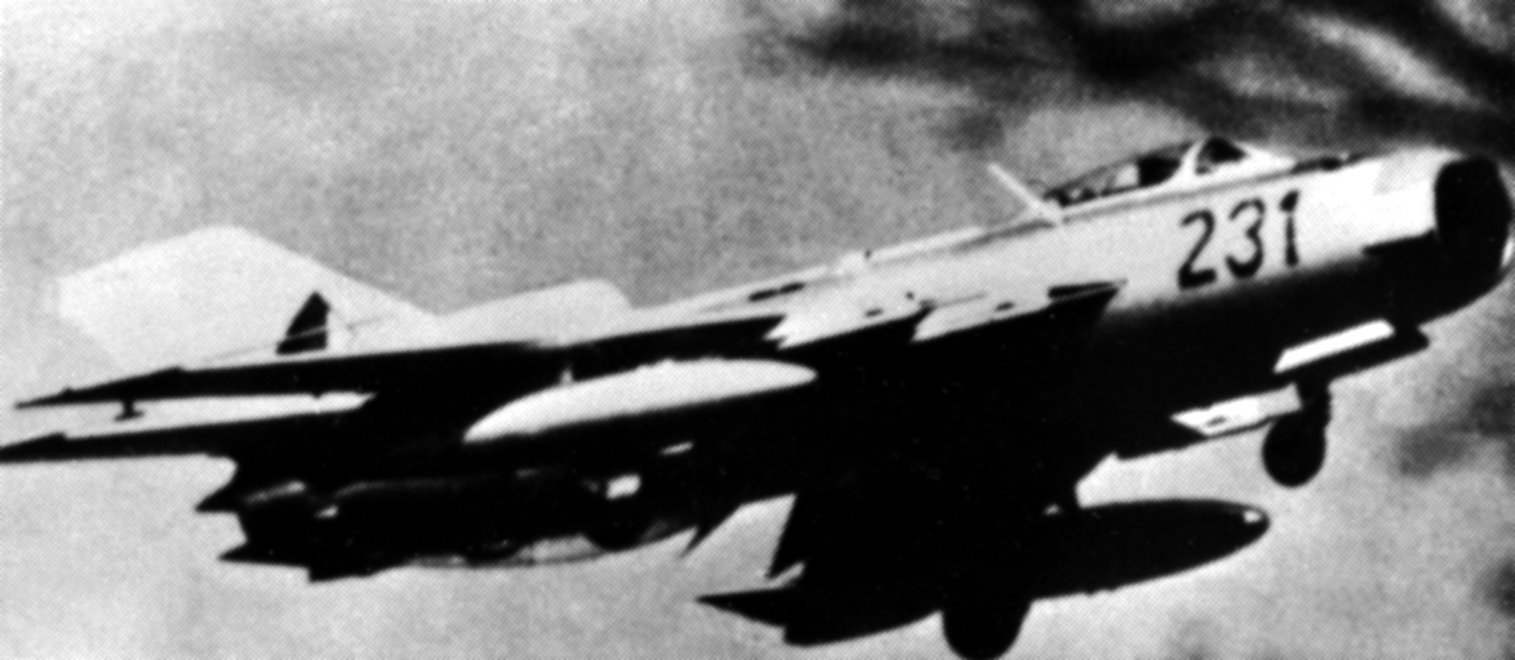 An East German MiG-19 "Farmer" fighter aircraft in flight.